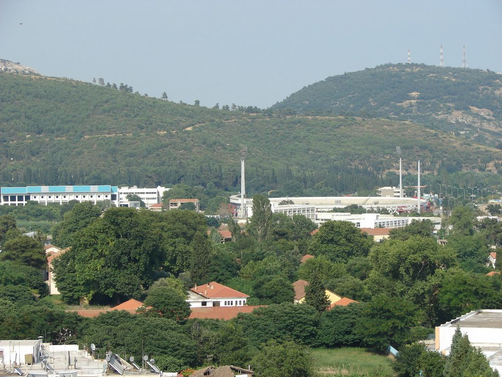 Indoor swimming pool in Kavala, Greece